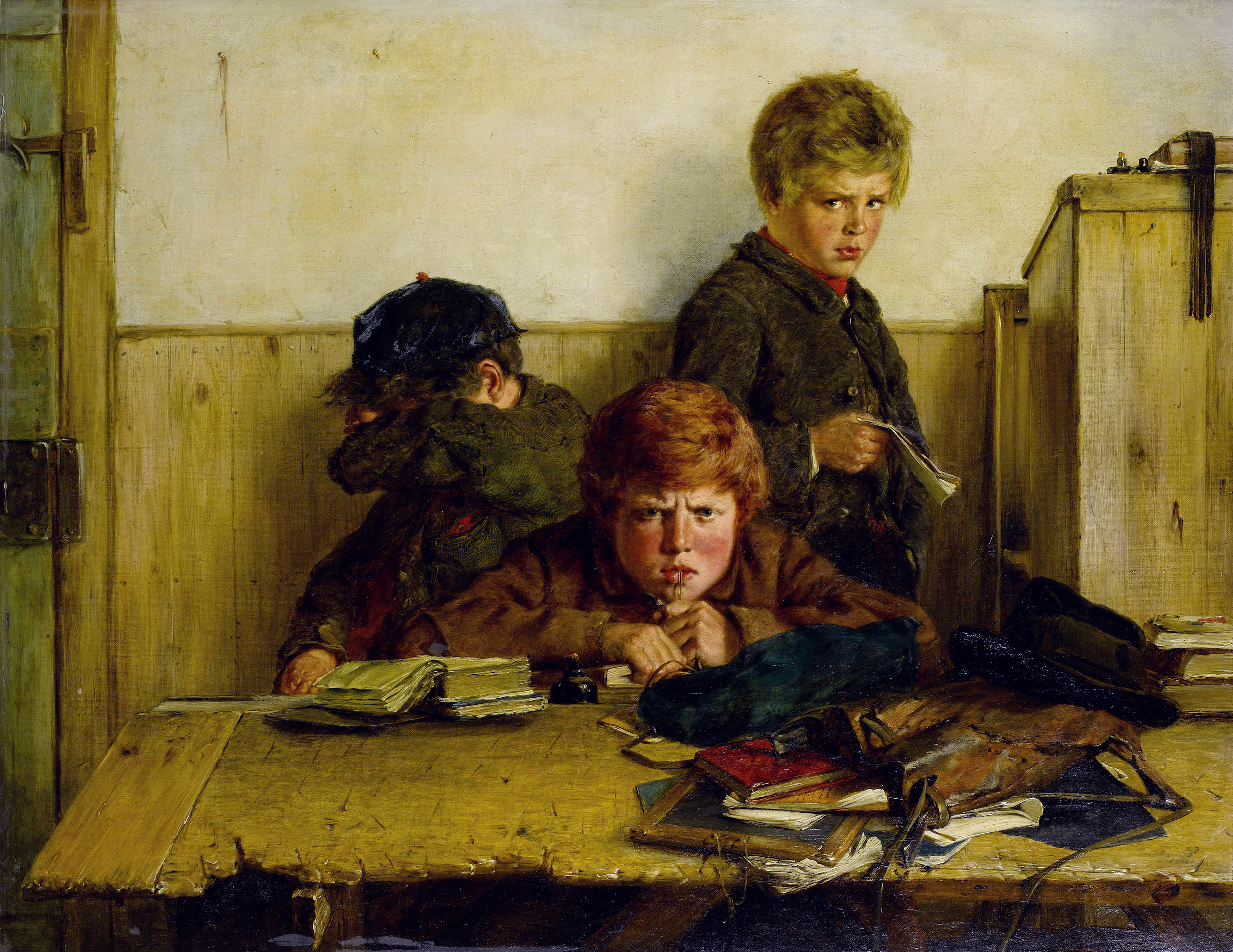 Nicol spent considerable time as a drawing master in schools, first in his home town of Leith and then in Dublin. His finely-wrought paintings are often invested with humour, some of which may have been gained during his time as 'dominie', and this picture has a distinct feeling of first-hand experience from the defiant expressions of the boys to the minutely-observed edge of the desk. Carritch is the Scots' word for an abbreviated catechism.[1]